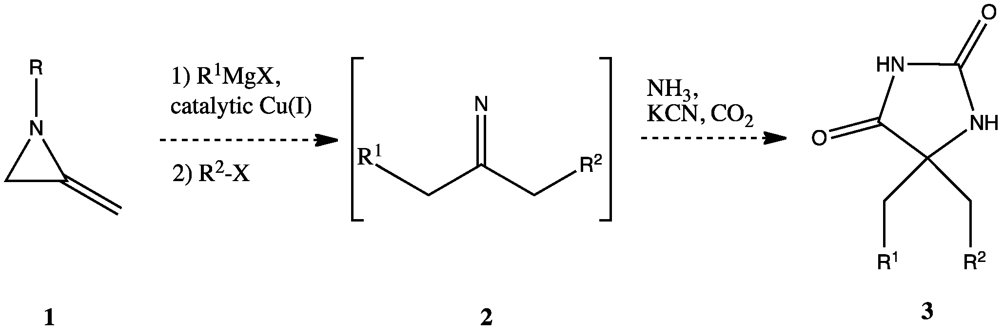 This is a Methyleneaziridine/Bucherer-Bergs multi-component reaction.